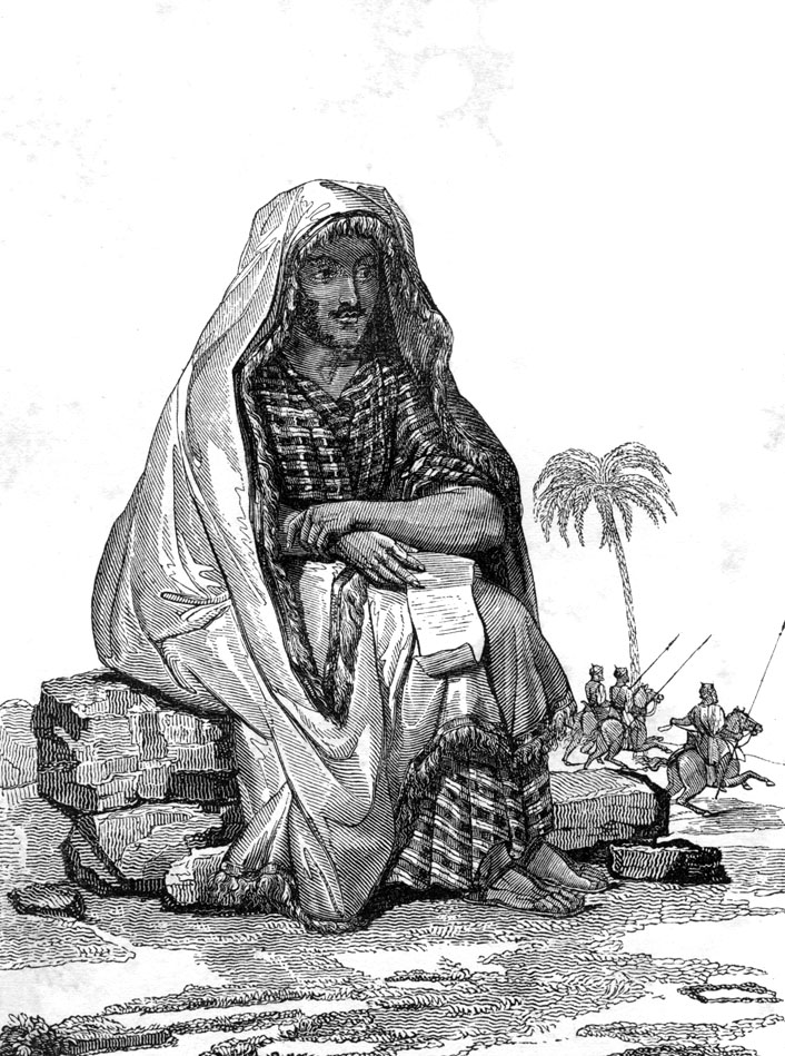 René Caillié dressed in arab clothing. Picture is opposite page 74 in: Caillié, René (1830), Travels through Central Africa to Timbuctoo; and across the Great Desert, to Morocco, performed in the years 1824–1828. Vol. II, London: Colburn & Bentley. Available from Google books here: The caption is: Mr. Caillié meditating upon the Koran and taking notes.